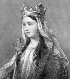 Matilda of Flanders, wife of William I of England. From [1]. Originally from "Queens of England" - 1894.